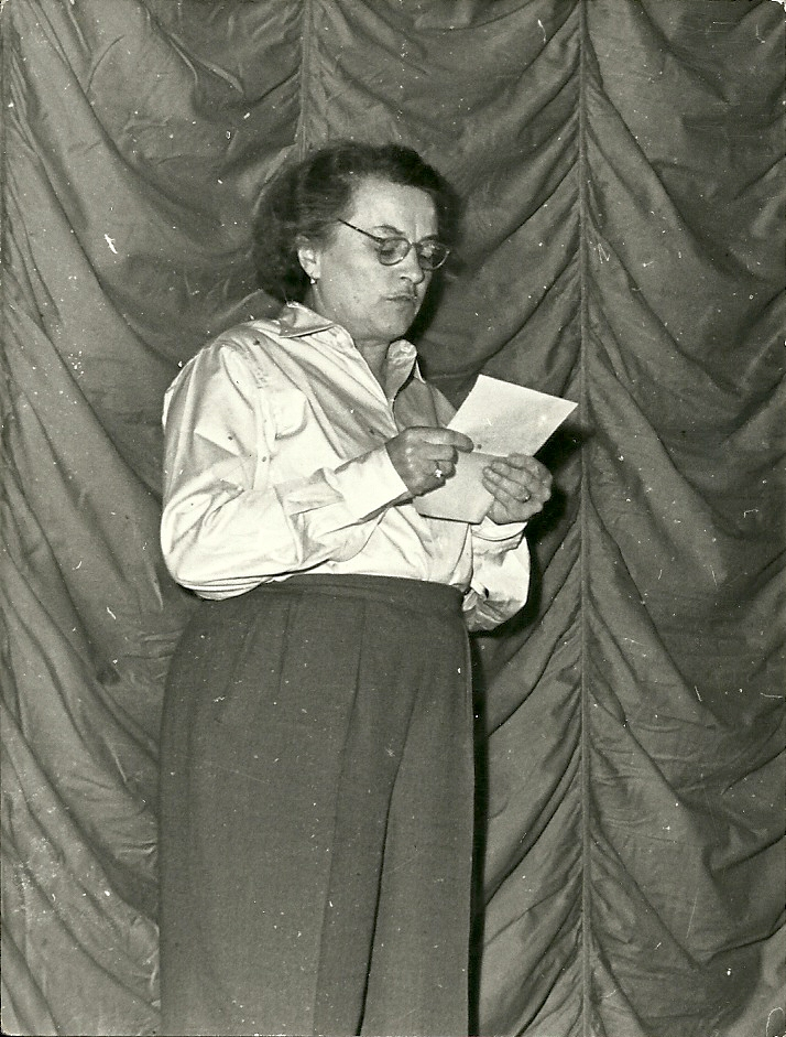 Jiřina Skupová on a tour in Hungary